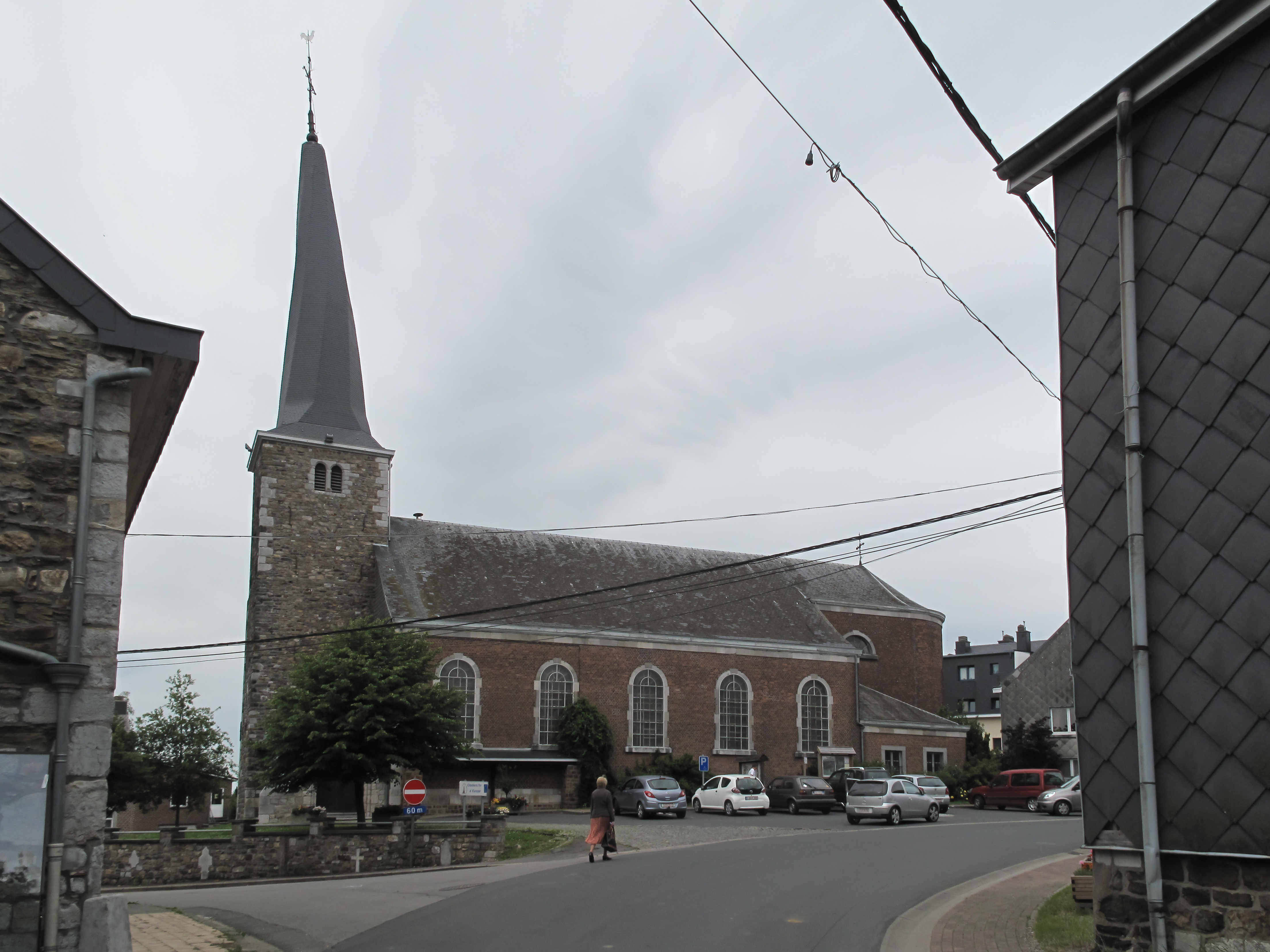 Jalhay, church: église Saint Michel